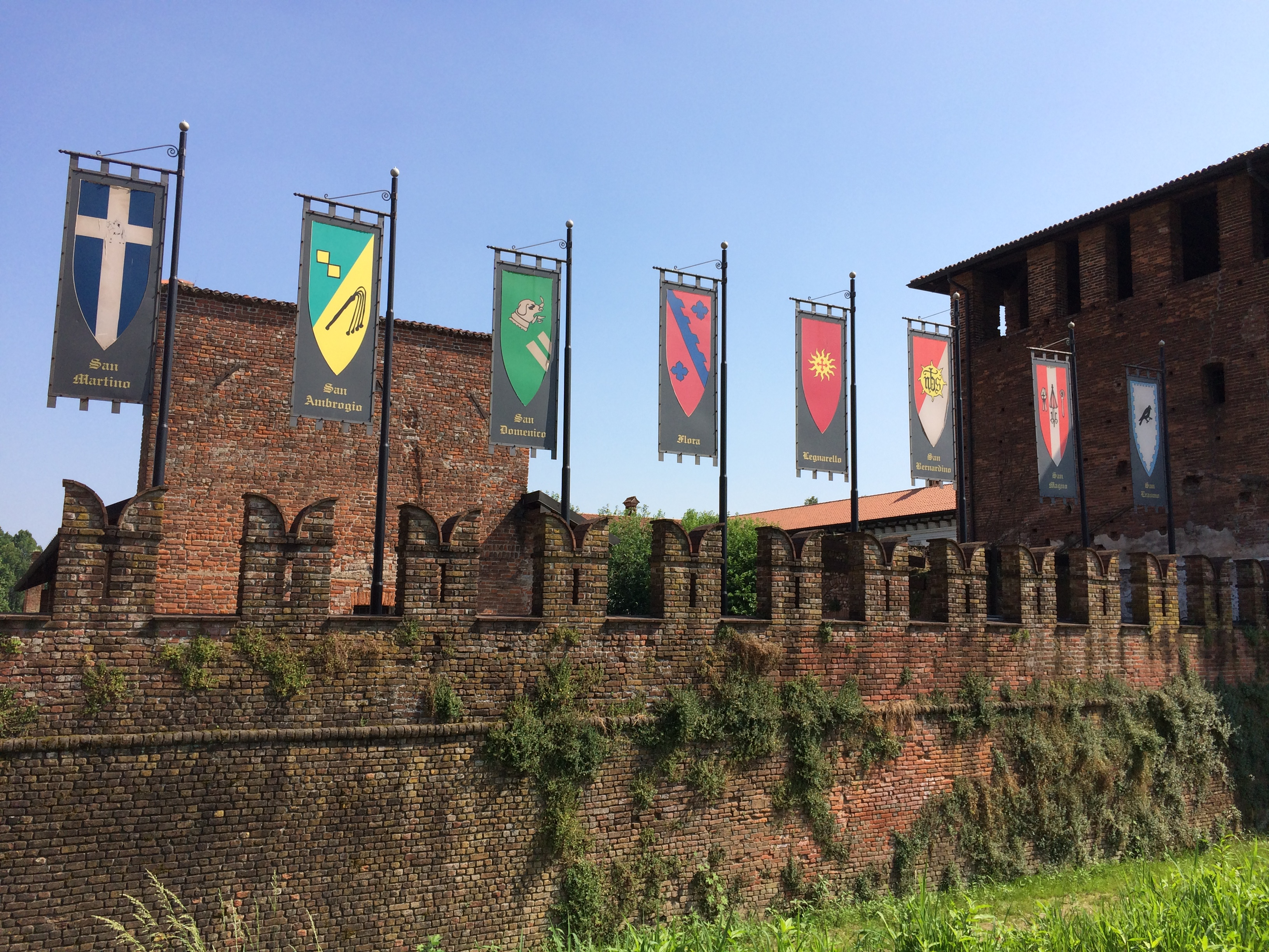 Castello di San Giorgio (Legnano)